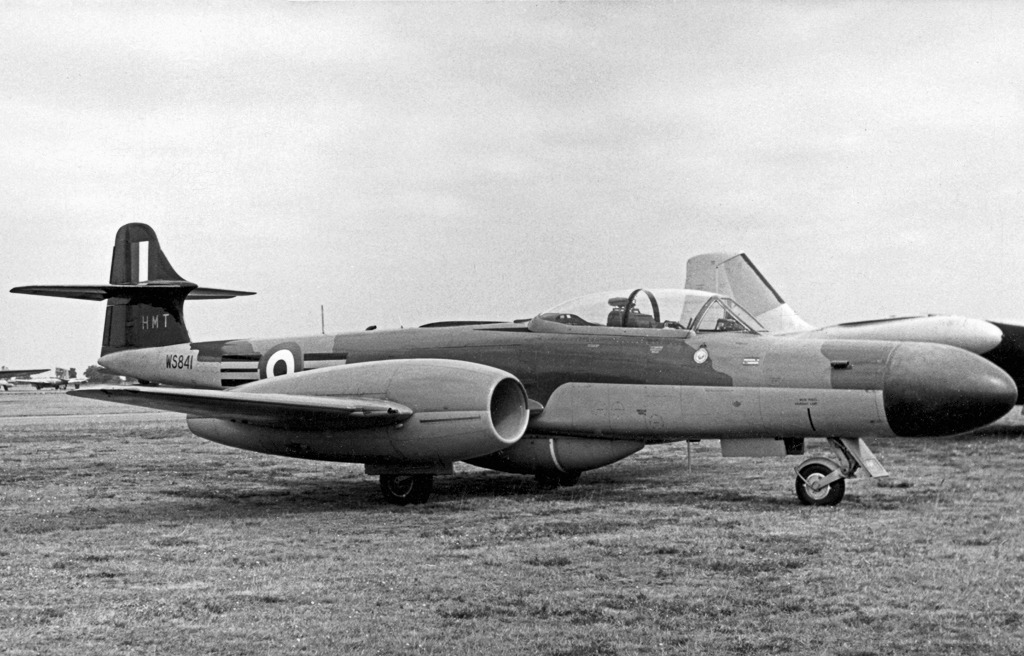 Gloster Meteor NF.14 WS841 of 264 Squadron RAF at Blackbushe Airport, Hants, in 1955